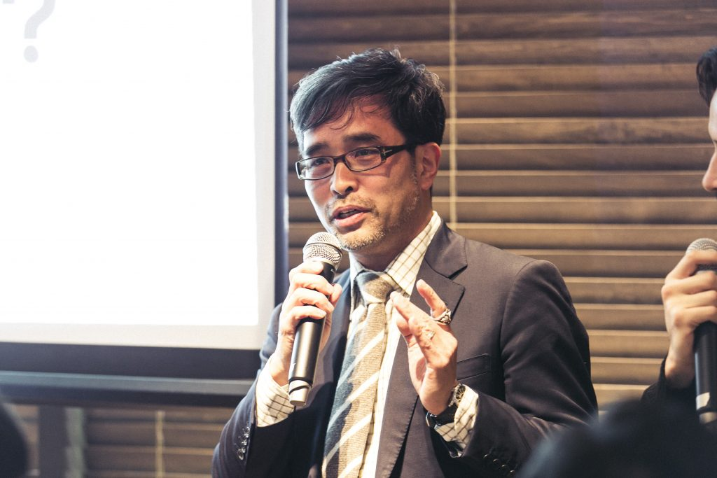 NPO法人スーパーダディ協会（SDA）イベントにて